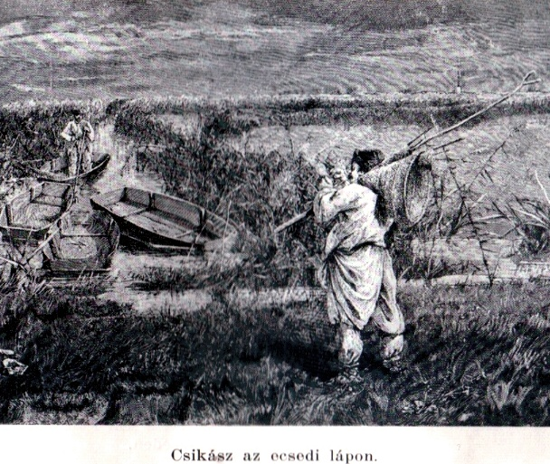 Fisherman in Hungary, meshing Misgurnus fossilis, Hungary, near Nagyecsed